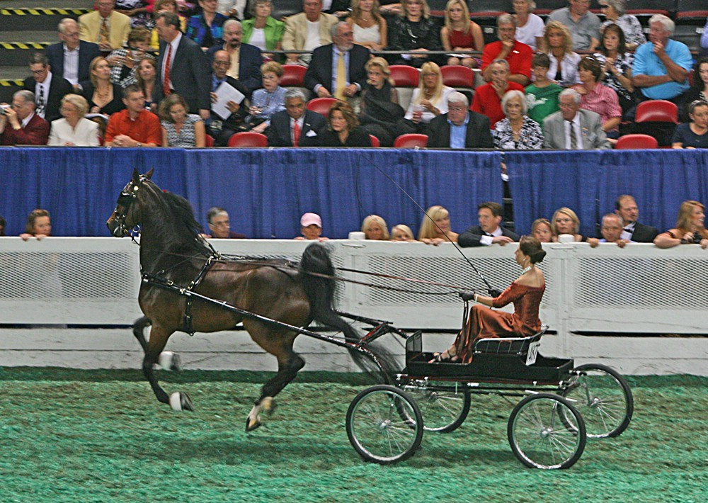 "NO cantering in the Fine Harness Class please!) Only posted because I Finally got a good shot of a cantering horse! Photo By Heather Abounader